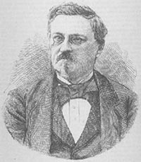 Drawing of Gustave de Molinari.